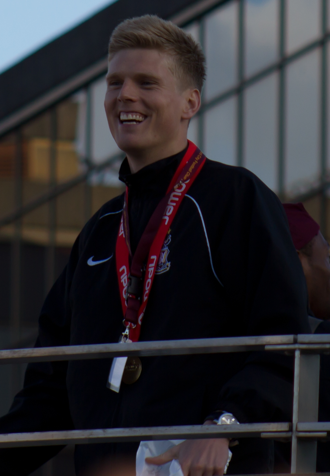 Alan Connell. Image cropped from original at flickr.